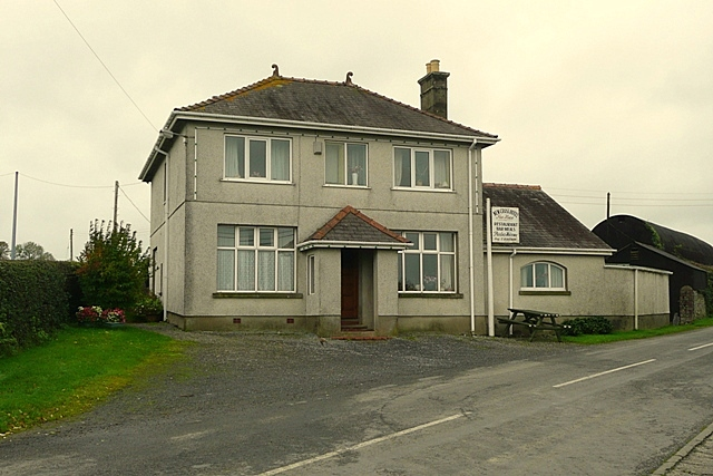 New Cross Hotel This pub/hotel now appears to be shut.